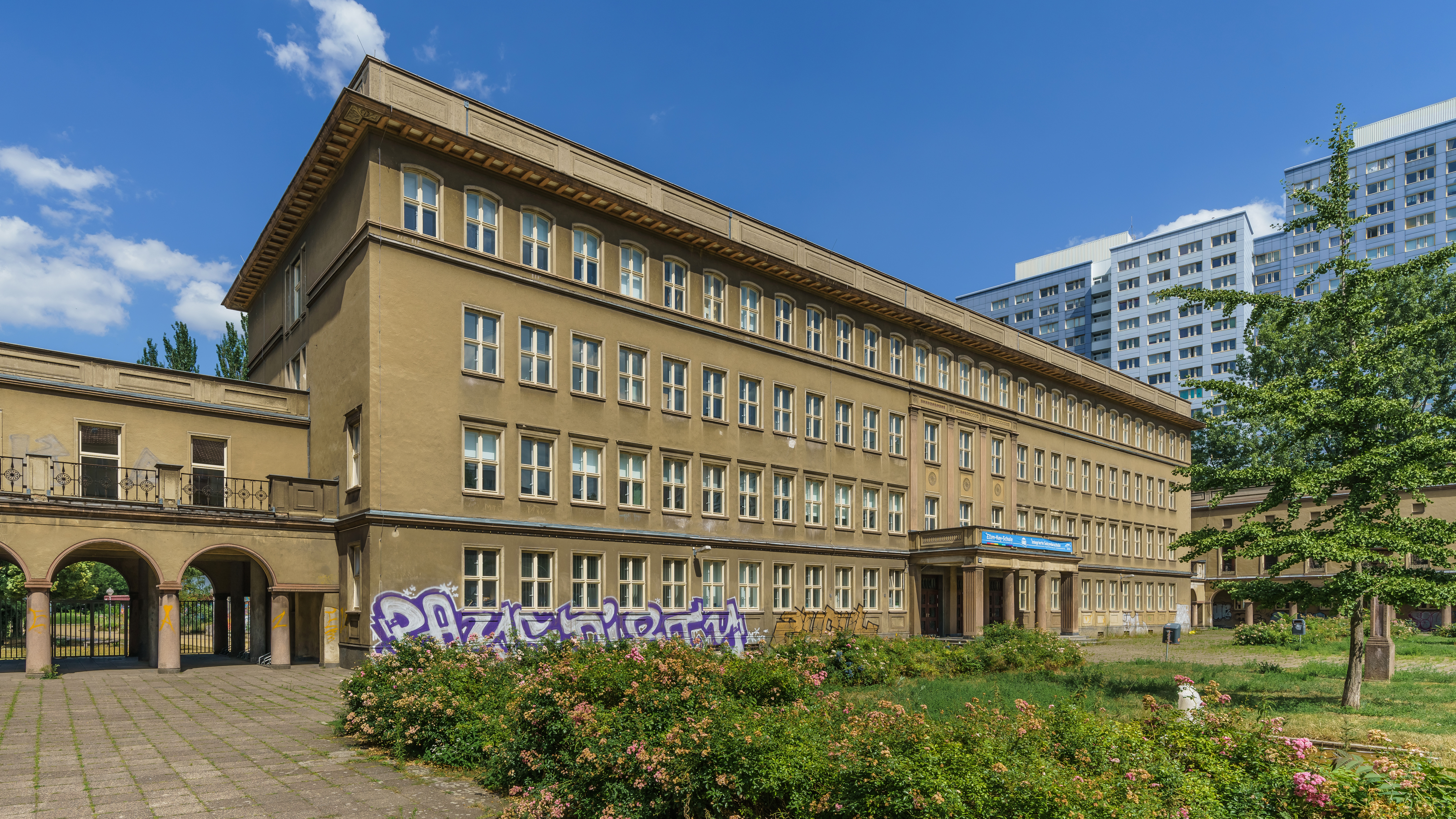 Building of the Ellen Key School (unusual style: a mix of Stalinist and Nazi architecture) in Berlin, Germany